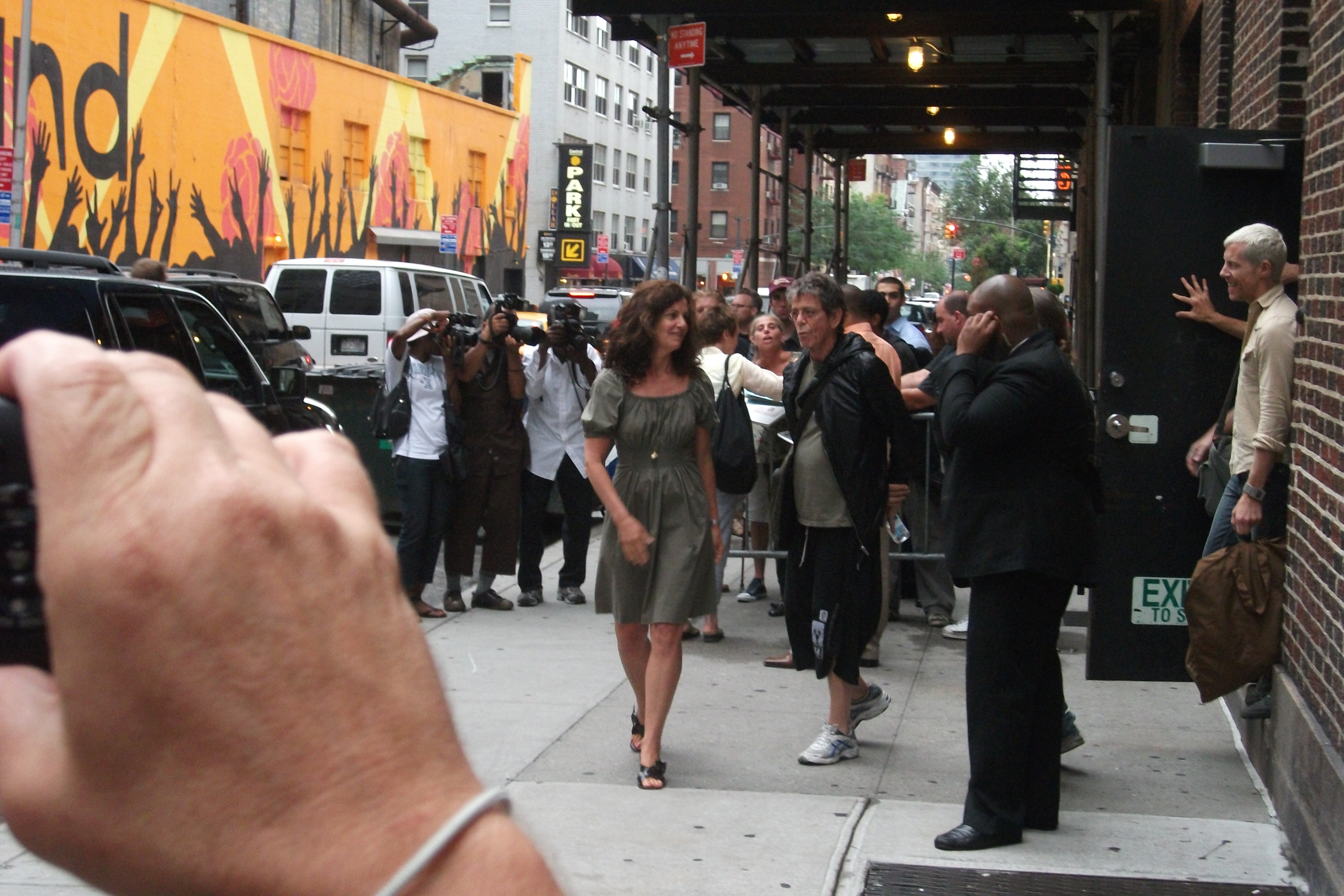 Lou Reed exiting a talk show in New York in 2010.